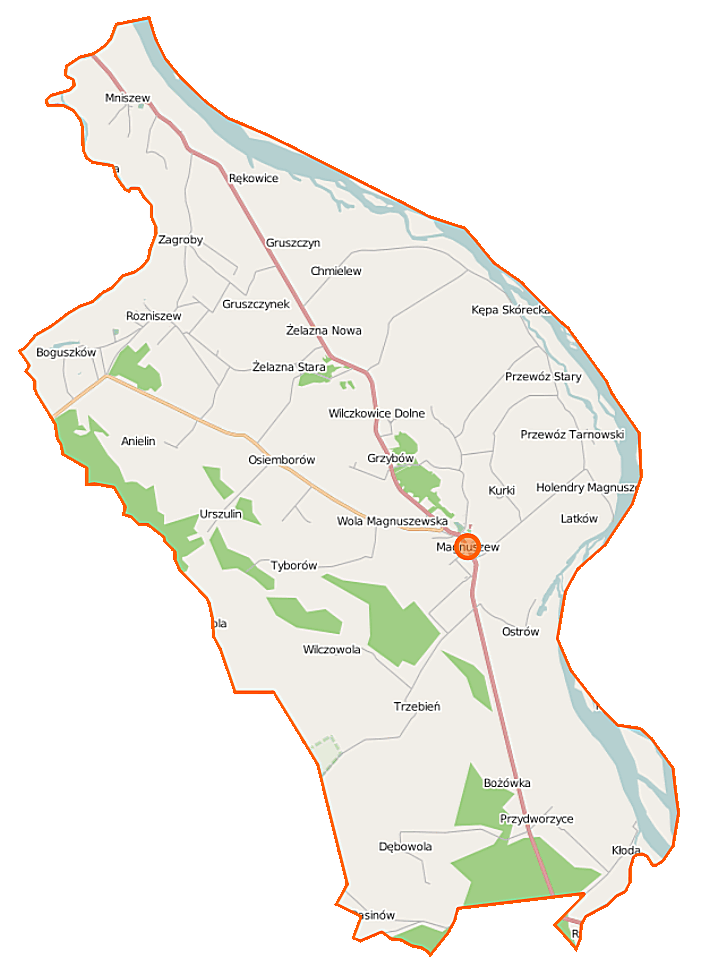 Map of Gmina Magnuszew, Poland This map of Magnuszew (gmina) was created from OpenStreetMap project data, collected by the community. This map may be incomplete, and may contain errors. Don't rely solely on it for navigation. Border coordinates51.864621.2407←↕→21.454951.6828